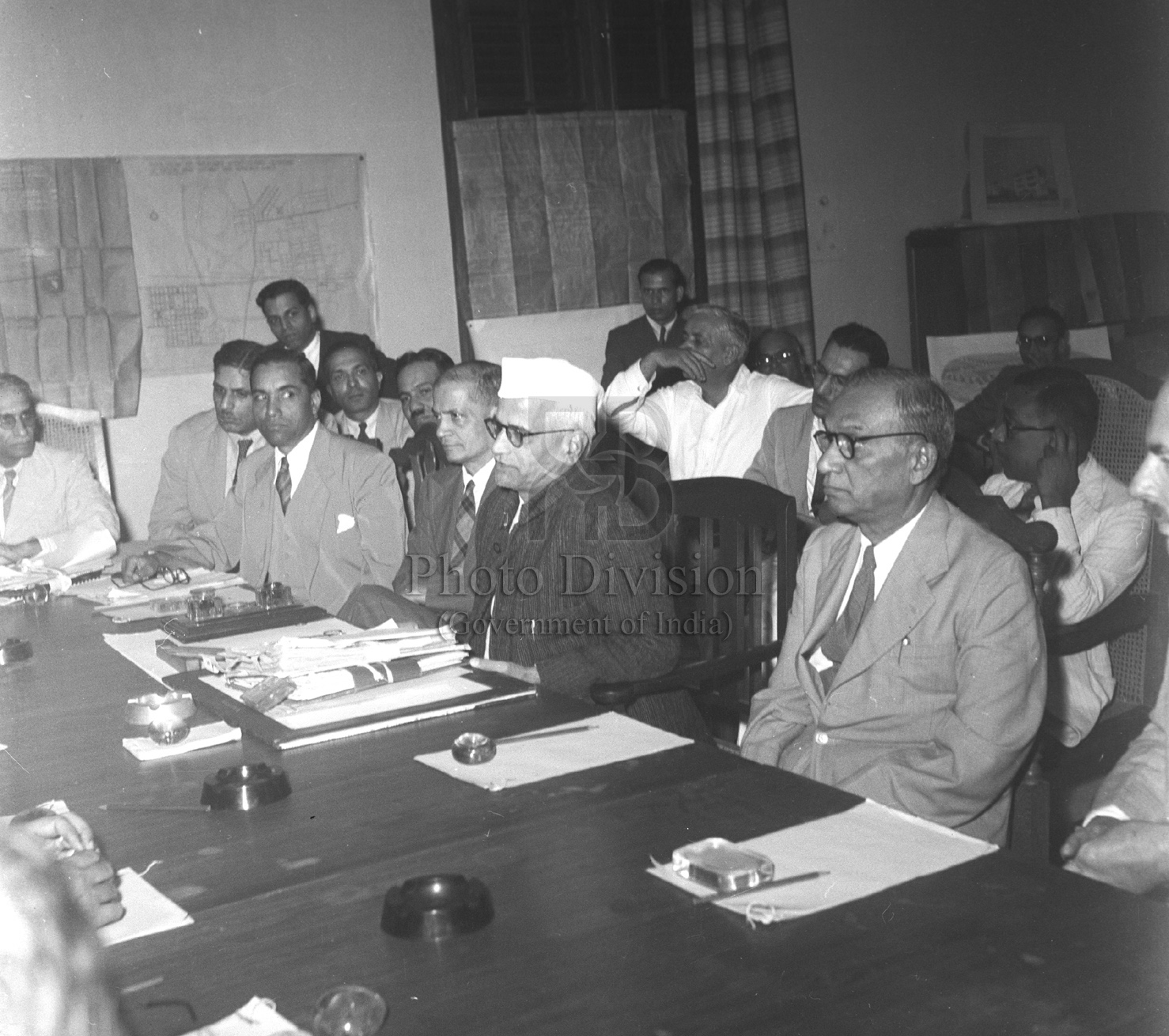 Photograph taken at the Conference of Building Engineers convened by the Narahar Vishnu Gadgil, Minster for Works, Mines and Power, Govt. of India on October 27, 1947. Sitting at right end of the minister are B. K. Gokhale, Secretary, Works, Mines & Power ministry and B. S. Puri, Chief Engineer, CPWD.